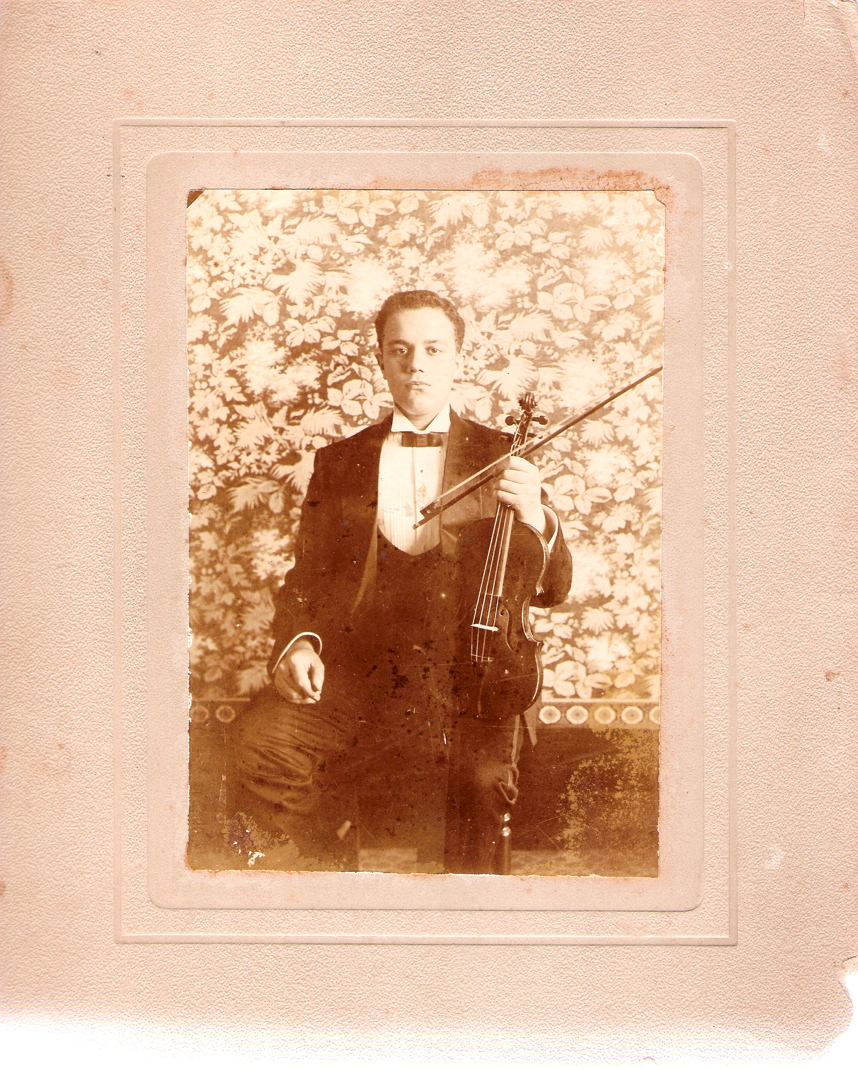 Roberto Viglione (Rio de Janeiro, 1904)